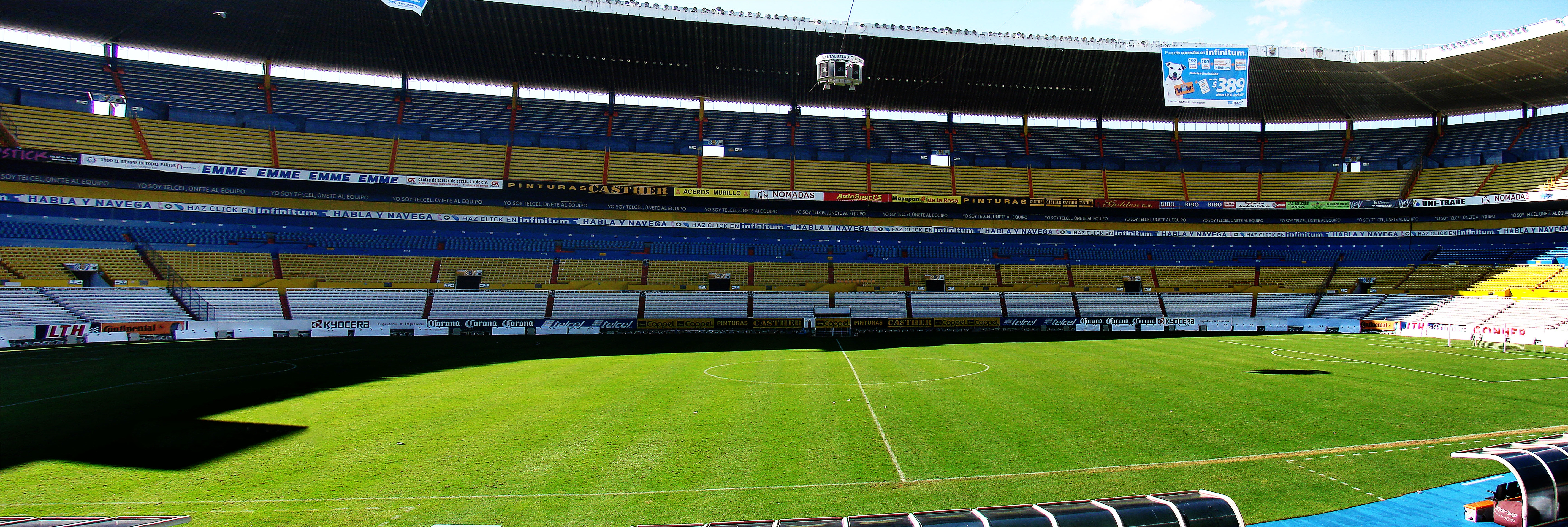 panoramic view of Jalisco Stadium